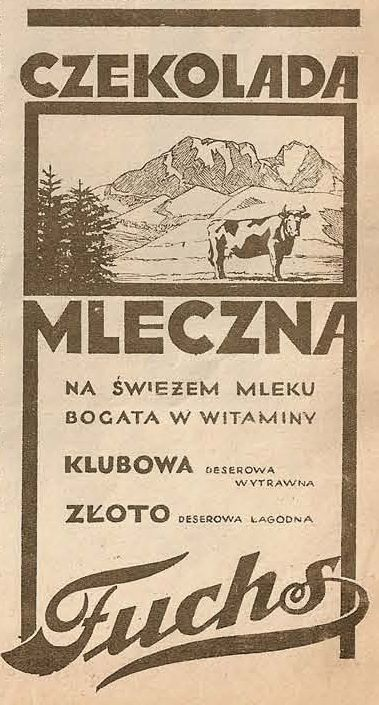 Advertisement of Fuchs chocolates. Pictured in the drawing: Mount Giewont.